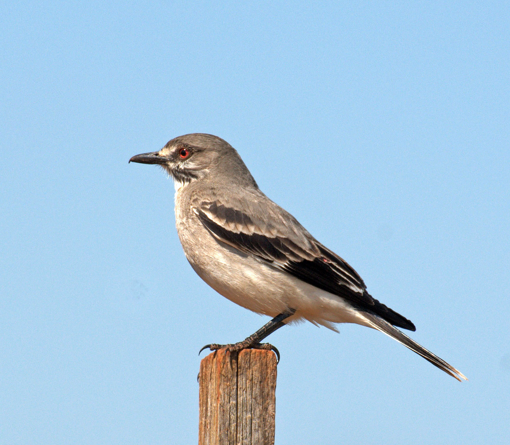 A Grey Monjita at Fazenda Campo de Ouro, Piraju, São Paulo, Brazil.